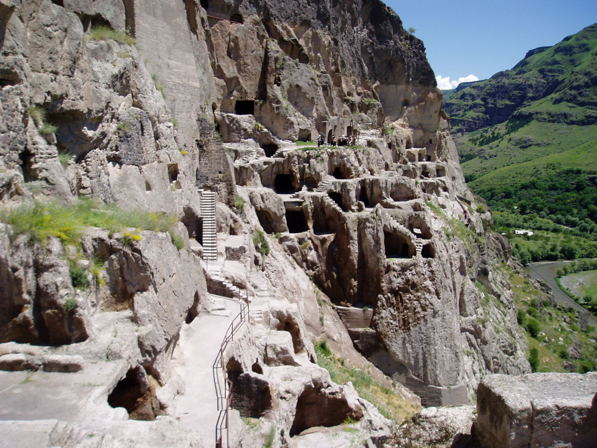 Vardzia